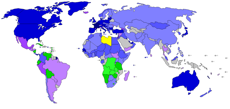 Based off English page Foreign relations of the National Transitional Council; the darkest blue is for countries who recognized before UNSCR 1973; next shade down is for those who recognized after UNSCR 1973 but before the beginning of the Rebel Coastal Offensive (August 15); then is between August 15 and the end of the Siege of Tripoli (August 28) and recognition from August 28th on is the lightest shade of blue. Lavender colors countries which voted for the UN to accept the NTCs credentials, the darker lavender is for countries which both supported the NTC in the UN vote and issued statements of support earlier in the conflict. The darker green colors countries which have refused to recognize the NTC; the lighter green colors those which have only opposed UN recognition of it.